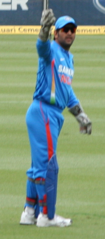 Sachin, dhoni, shewag & praveen